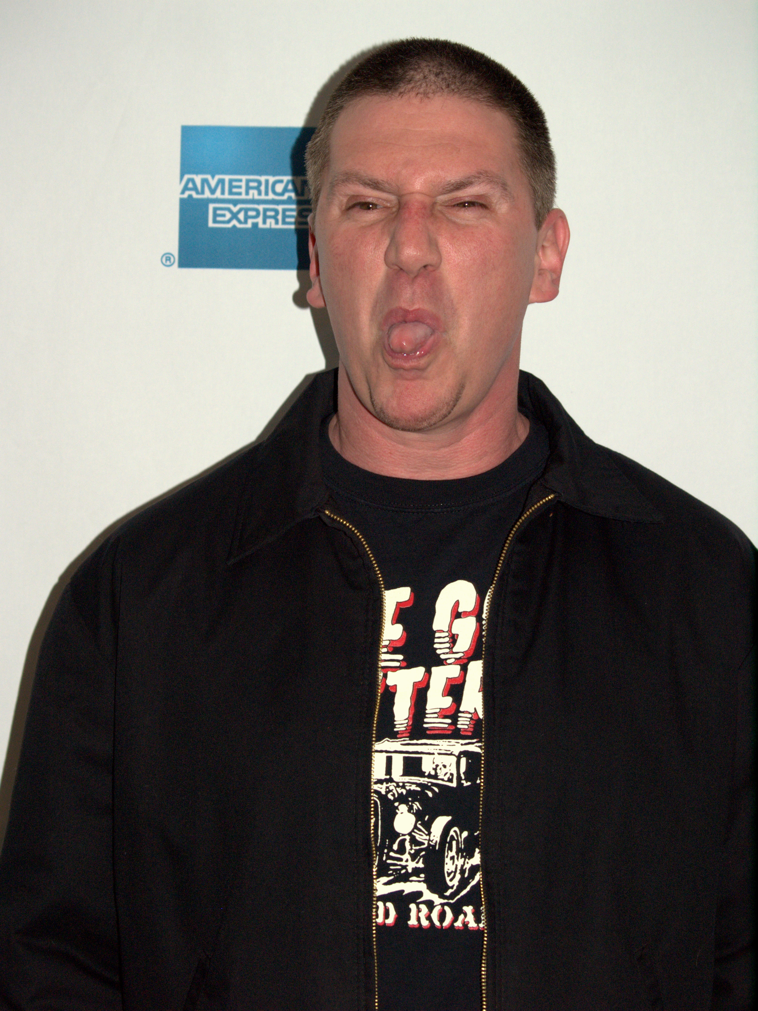 C.J._Ramone at the 2009 Tribeca Film Festival for the premiere of Burning Down the House, a documentary about famous New York City rock and roll venue CBGB.